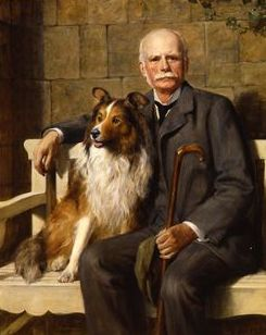 Portrait of Hon. Mark George Kerr Rolle (1836-1907), hanging in boardroom of Clinton Devon Estates, Budleigh Salterton. This is a copy of the original by John Collier which hangs in Great Torrington Town Hall and which was "presented to the Borough of Great Torrington by inhabitants of the town and neighbourhood in grateful remembrance of his life and character" (gilt plaque on Great Torrington painting)